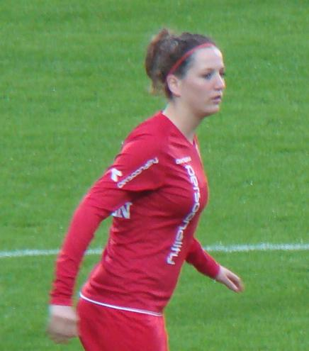 FC Twente player Ellen Jansen